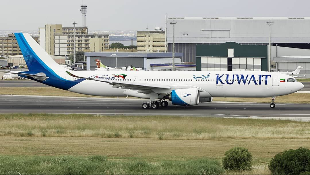 Kuwait Airways' first A330-800neo